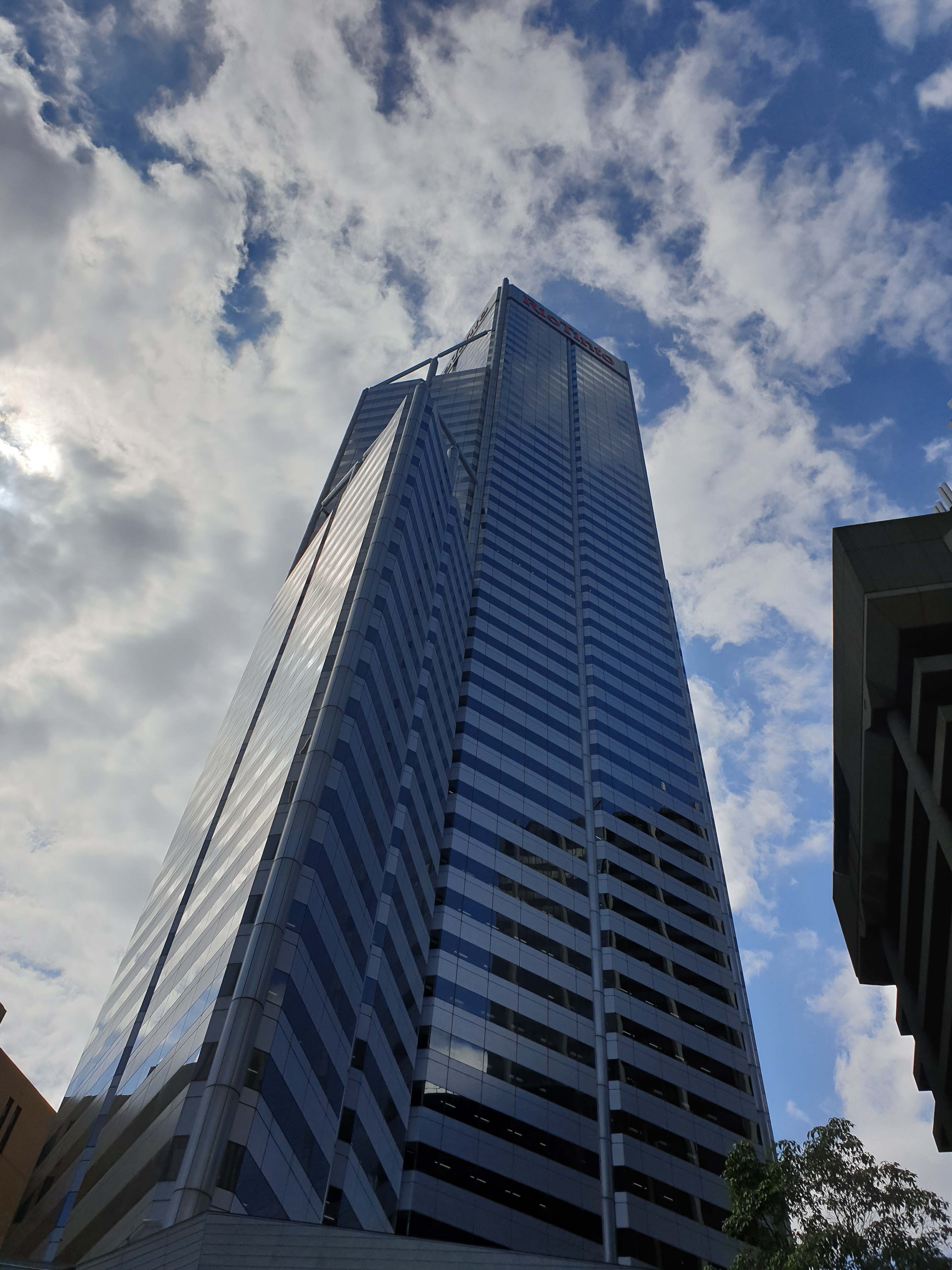 taken from St George's Tce Perth